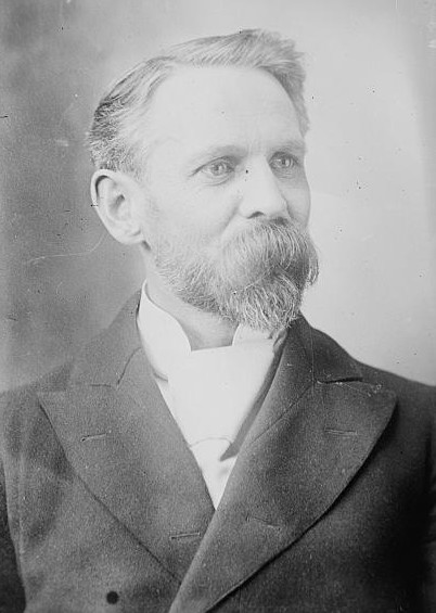 Frank Sandford (1862-1948), founder and leader of a controversial, apocalyptic Christian cult known as "The Kingdom"